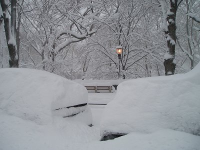 Riverside Drive, New York City, during the North American Blizzard of 2006.